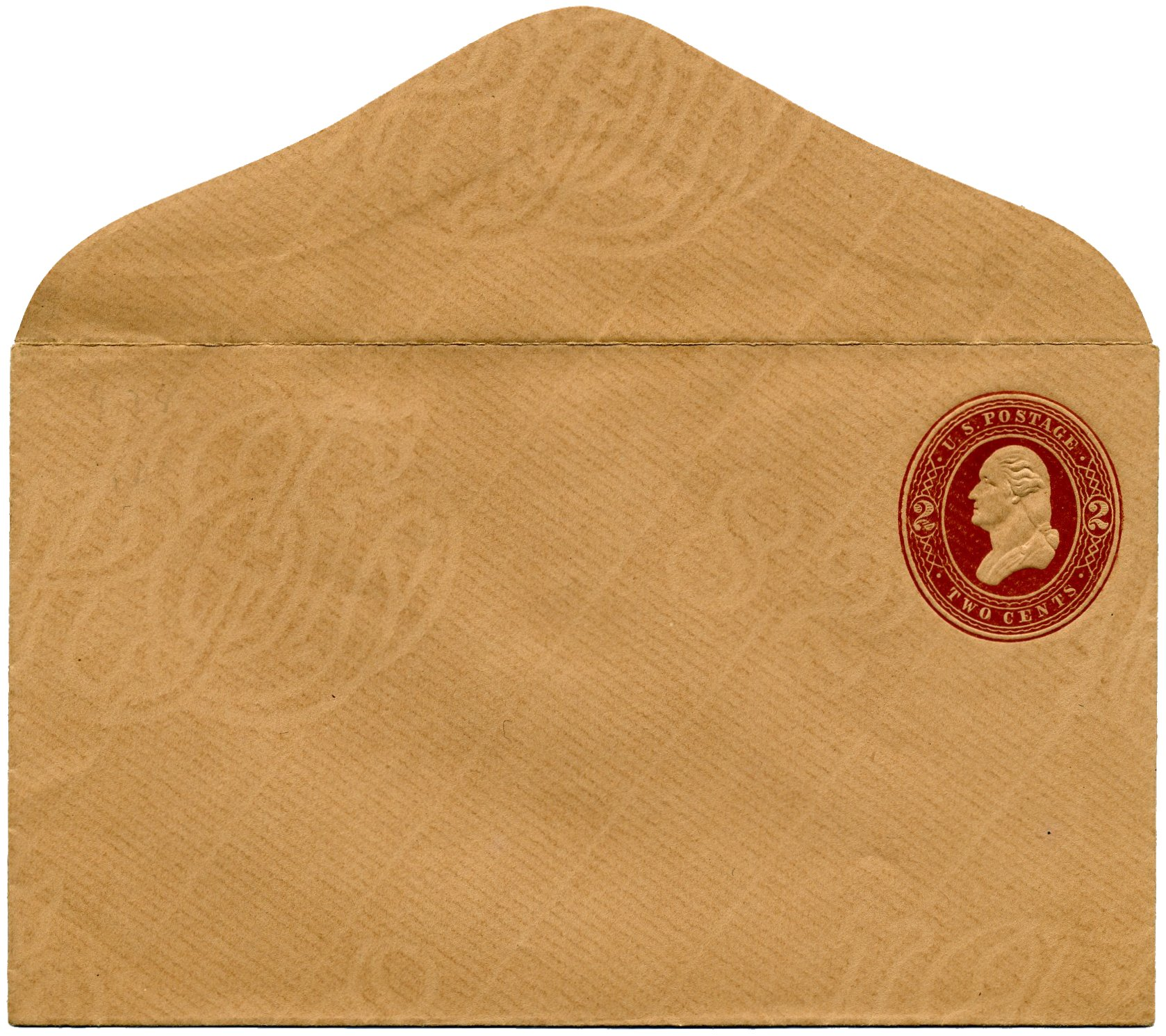 Postal Stationery envelope, Size 7 (83 x 140 mm), Watermark 6, fawn color, laid paper, from the Plimpton series of 1883. George Washington depicted on indicium.